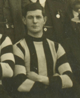 Photograph of Bert McDonald in 1913